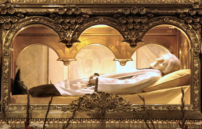 Jean-Marie Vianney (1786 – 1859), Catholic saint and priest of Ars-sur-Formans (France)